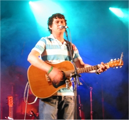 An original photograph taken by me at the Sligo Live festival in June 2006